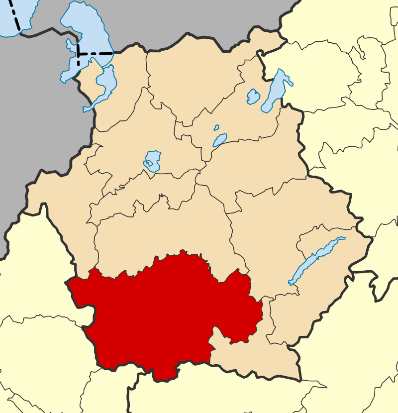 Locator map for Grevena municipality in Greek region West Macedonia (2011)